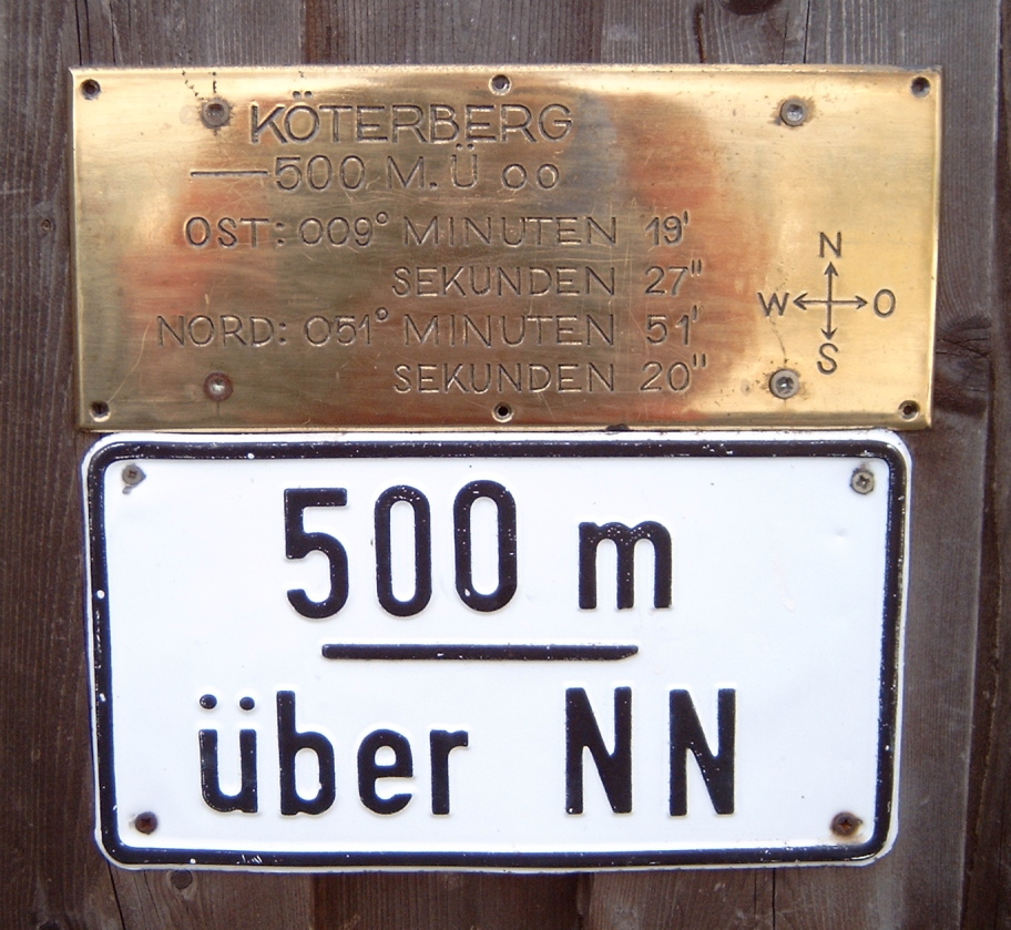 mountain "Köterberg", 496 metres, peak tablets on the "Köterberg" building, with wrong altitude declaration (correct altitude: 496 metres above mean sea level)